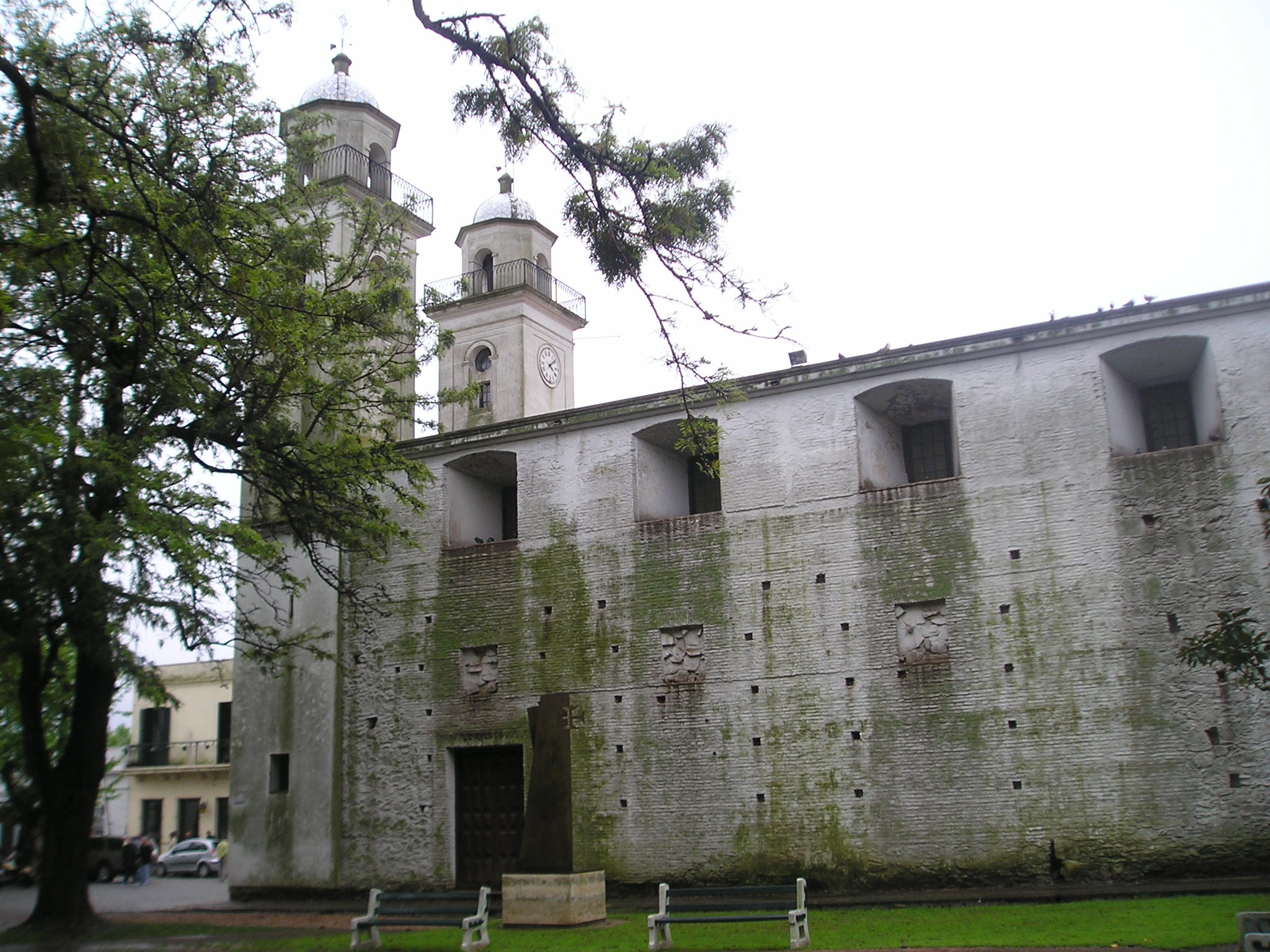 Side (southern) view of the Church of the Holy Sacrament (Basílica del Santísimo Sacramneto) in Colonia del Sacramento (now in Uruguay)